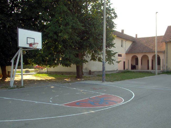 Basketball field in Moravac village, central Serbia